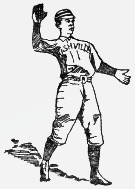 An illustration of baseball player Dusty Miller from the May 28, 1893, edition of The Nashville American